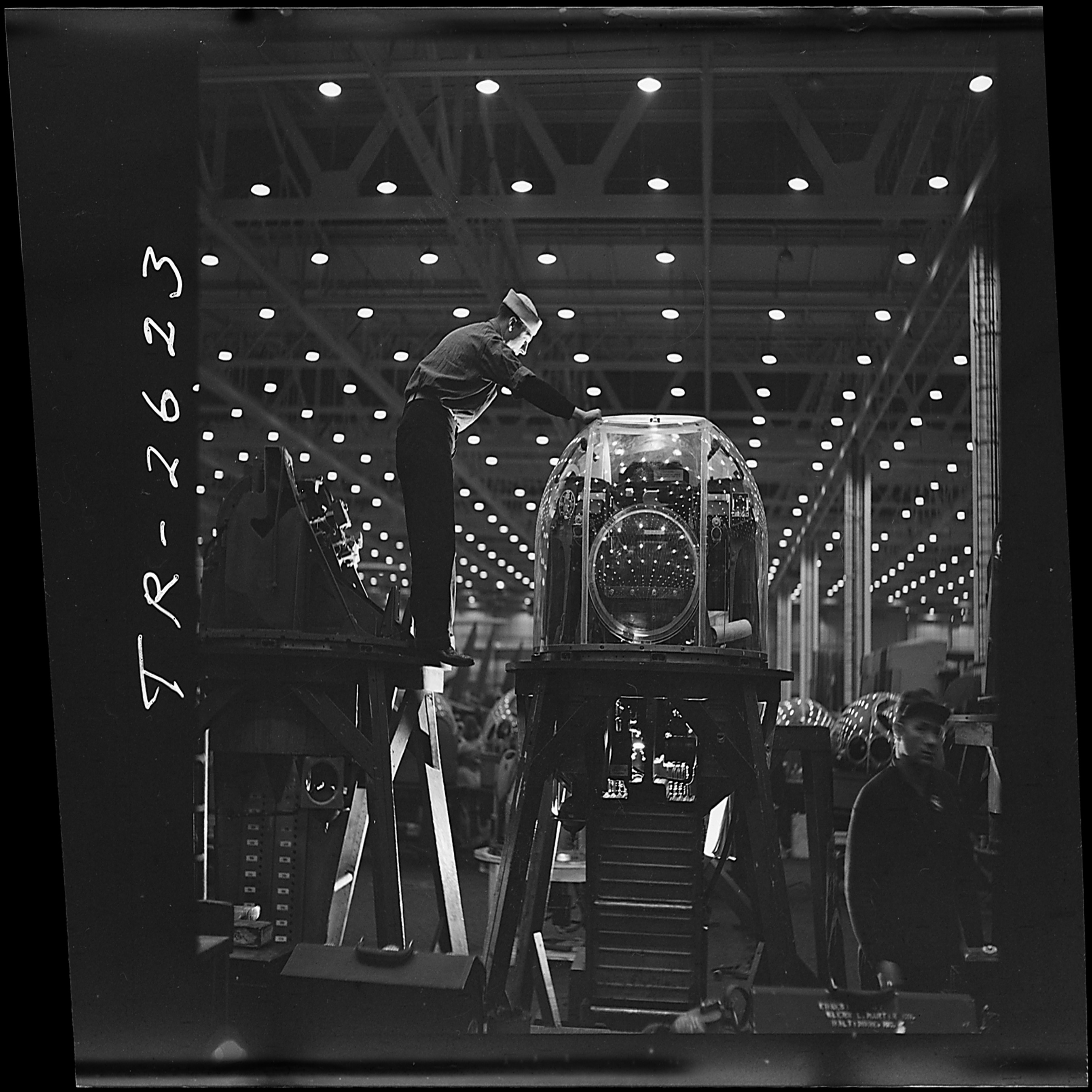 General notes: Use War and Conflict Number 803 when ordering a reproduction or requesting information about this image.